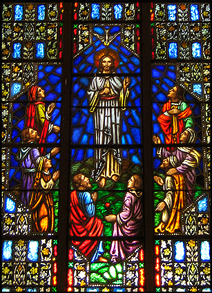 a stained glass window of the Silliman University Church